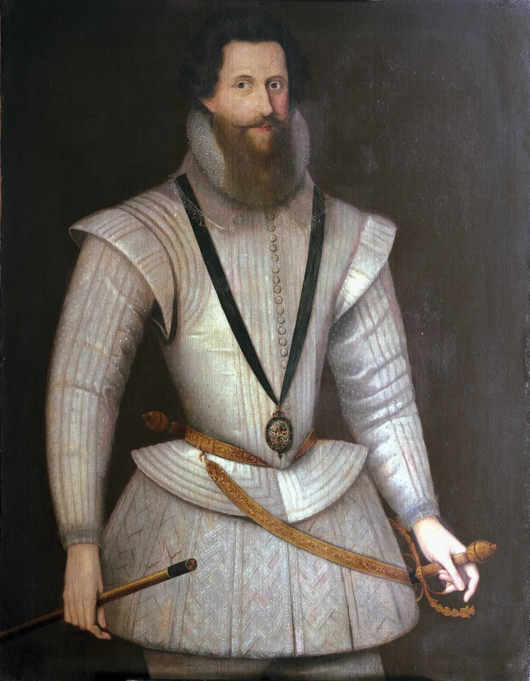 Portrait of Robert Devereux, 2nd Earl of Essex